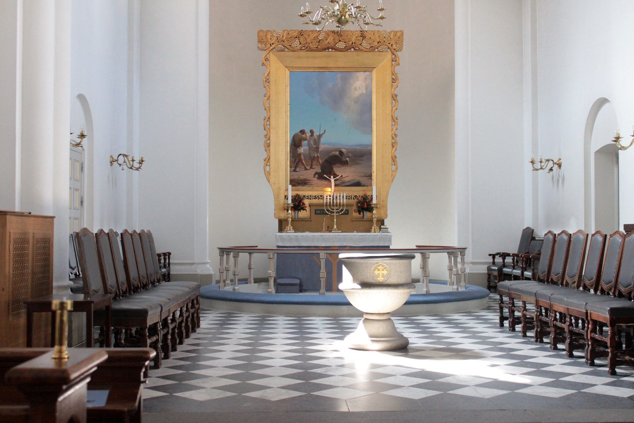 Sankt Pauls Kirke: Altar and font. Painting by Herman Siegumfeldt